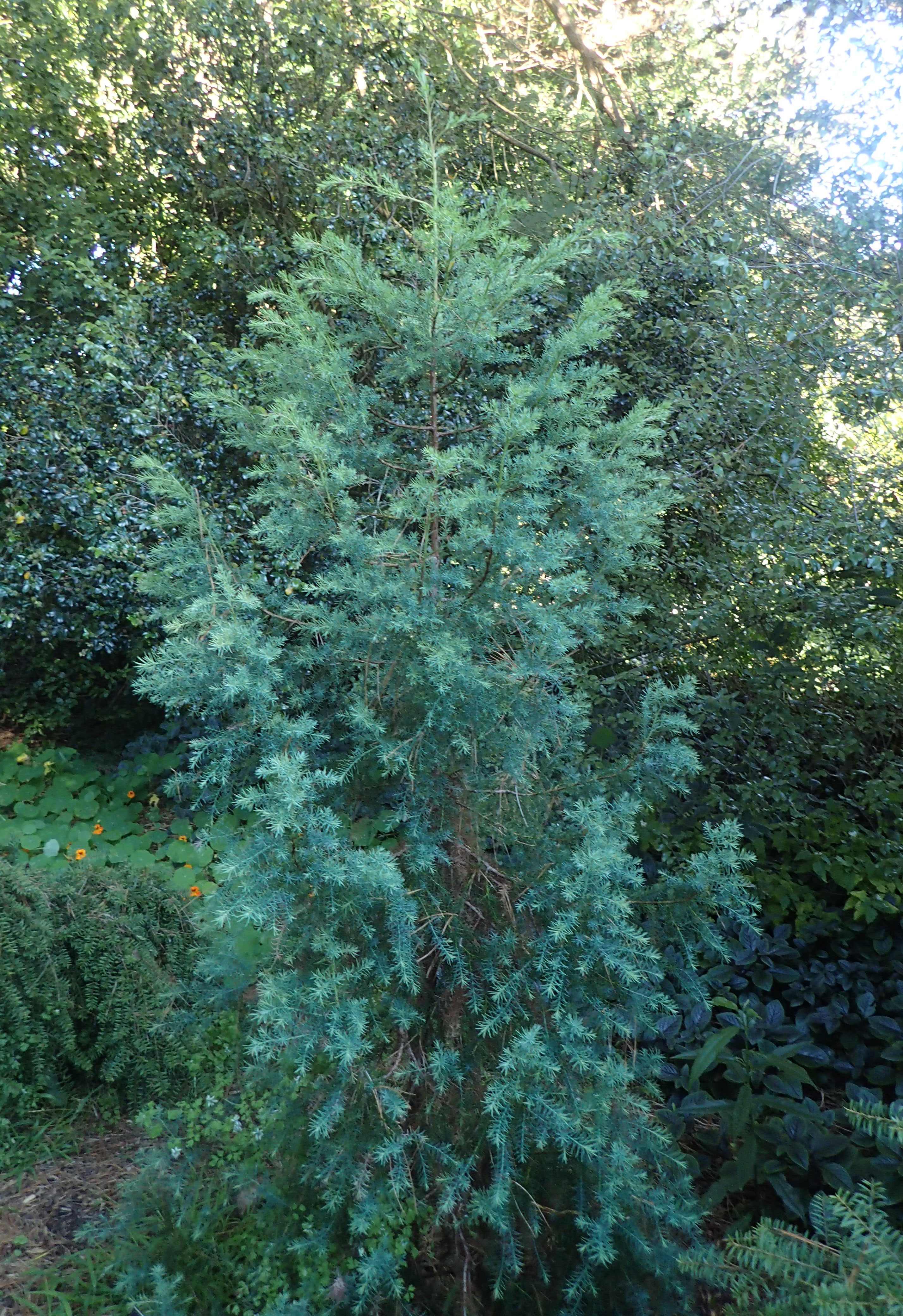 Widdringtonia schwarzii in the San Francisco Botanical Garden